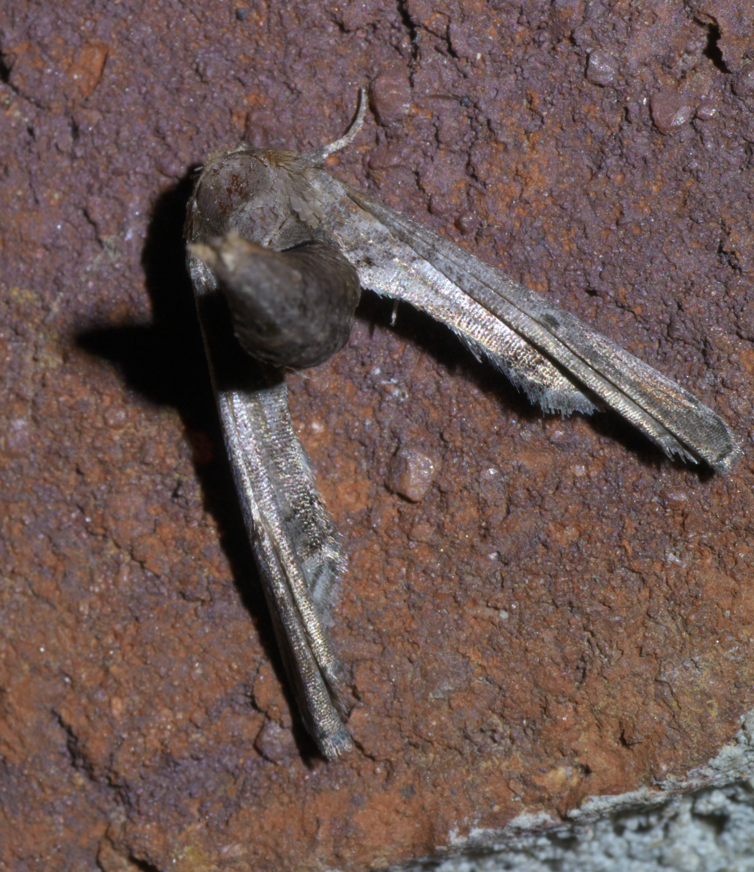 Marathyssa basalis, Light Marathyssa - Hodges #8956, ID Confidence: 89